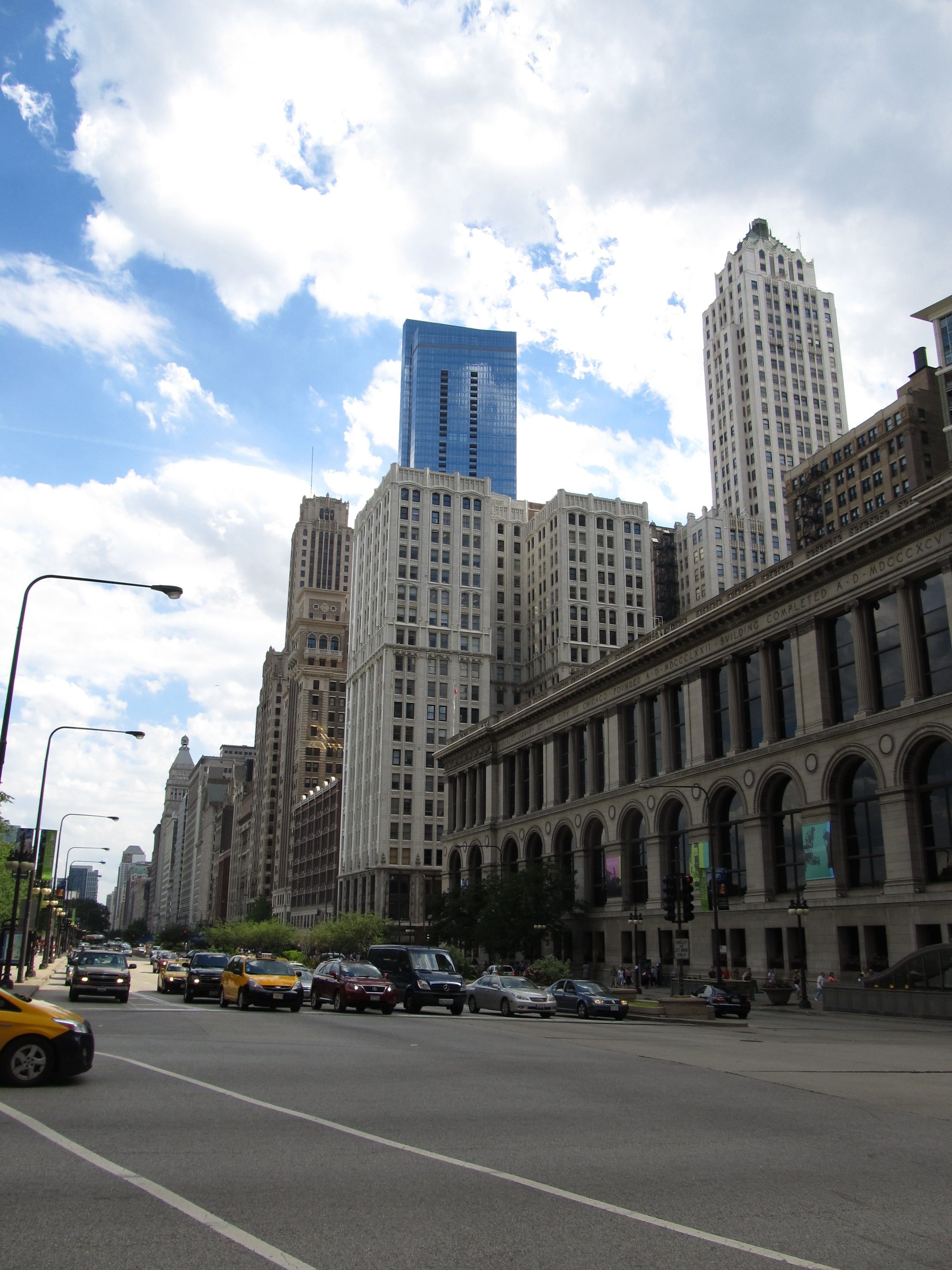 The Chicago Cultural Center, opened in 1897, is a Chicago Landmark building that houses the city's official reception venue where the Mayor of Chicago has welcomed Presidents and royalty, diplomats and community leaders. It is located in the Loop, across Michigan Avenue from Millennium Park. Originally the central library building, it was converted to an arts and culture center at the instigation of Commissioner of Cultural Affairs Lois Weisberg. The city's central library is now housed across the Loop in the spacious, post-modernist Harold Washington Library Center opened in 1991. As the nation's first free municipal cultural center, the Chicago Cultural Center is one of the city's most popular attractions and is considered one of the most comprehensive arts showcases in the United States. Each year, the Chicago Cultural Center features more than 1,000 programs and exhibitions covering a wide range of the performing, visual and literary arts. It also serves as headquarters for the Chicago Children's Choir. According to Crain's Chicago Business, the Chicago Cultural Center was the fifth most-visited cultural institution in the Chicago area in 2007, with 821,000 visitors.